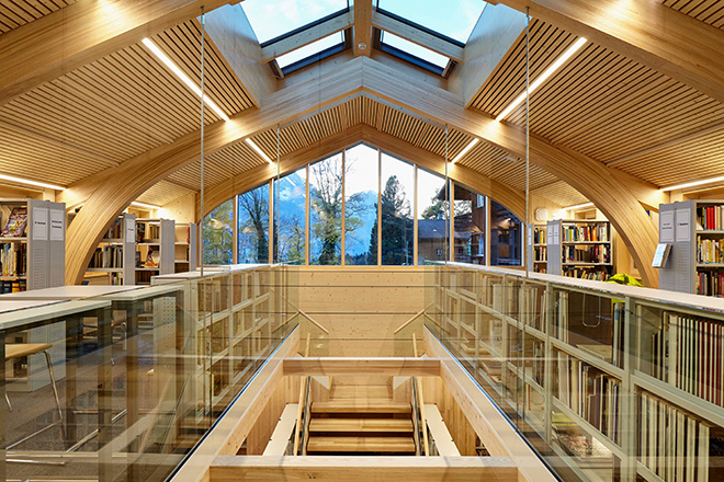 The interior of the Ecole's main library.